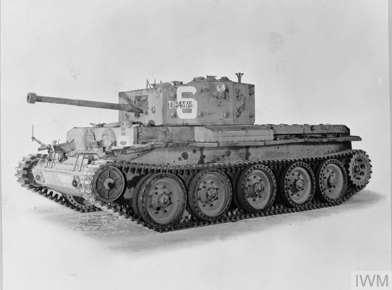 Cruiser tank Mk VIII Centaur (A27L)